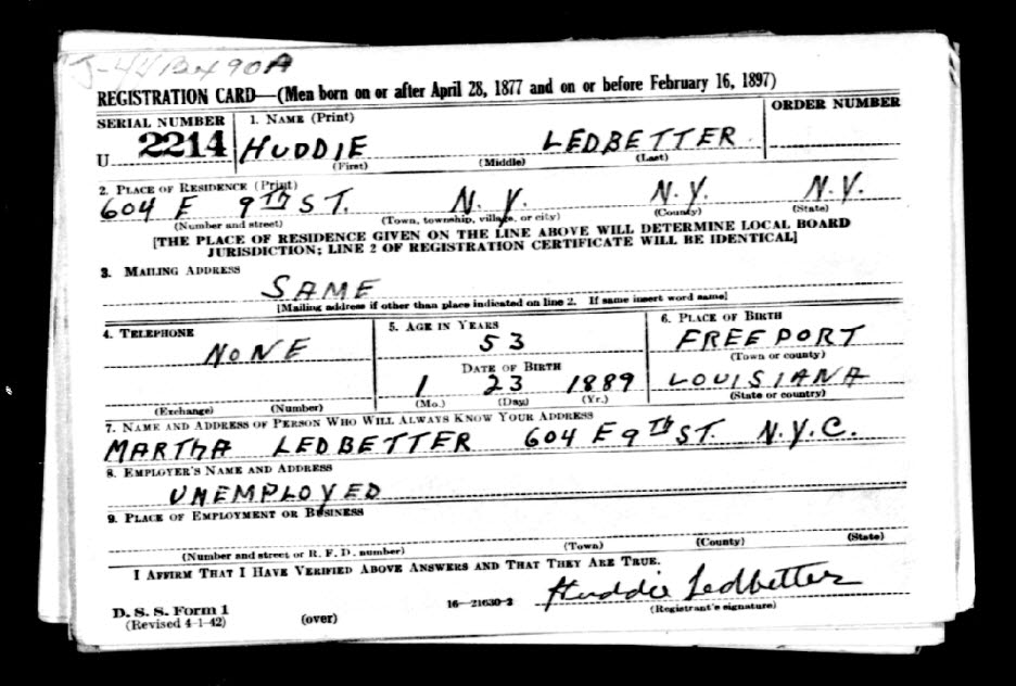 Lead Belly (Huddie Ledbetter) draft registration card, ca. 1942. The U.S. officially entered World War II on 8 December 1941 following an attack on Pearl Harbor, Hawaii. Just about a year before that, in October 1940, President Roosevelt had signed into law the first peacetime selective service draft in U.S. history, due to rising world conflicts. After the U.S. entered WWII a new selective service act required that all men between ages 18 and 65 register for the draft. Between November 1940 and October 1946, over 10 million American men were registered. This database is an indexed collection of the draft cards from the Fourth Registration, the only registration currently available to the public (the other registrations are not available due to privacy laws). The Fourth Registration, often referred to as the "old man's registration", was conducted on 27 April 1942 and registered men who born on or between 28 April 1877 and 16 February 1897 - men who were between 45 and 64 years old - and who were not already in the military. Information available on the draft cards includes: Name of registrant Age Birth date Birthplace Residence Employer information Name and address of person who would always know the registrant's whereabouts Physical description of registrant (race, height, weight, eye and hair colors, complexion) Additional information such as mailing address (if different from residence address), serial number, order number, and board registration information may also be available. For individuals who lived near a state border, sometimes their Draft Board Office was located in a neighboring state. Therefore, you may find some people who resided in one state, but registered in another.